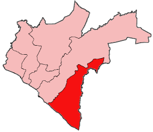 Map of Grand Bassa County, Liberia showing District #4; created with the GIMP. Made by User:Acntx.